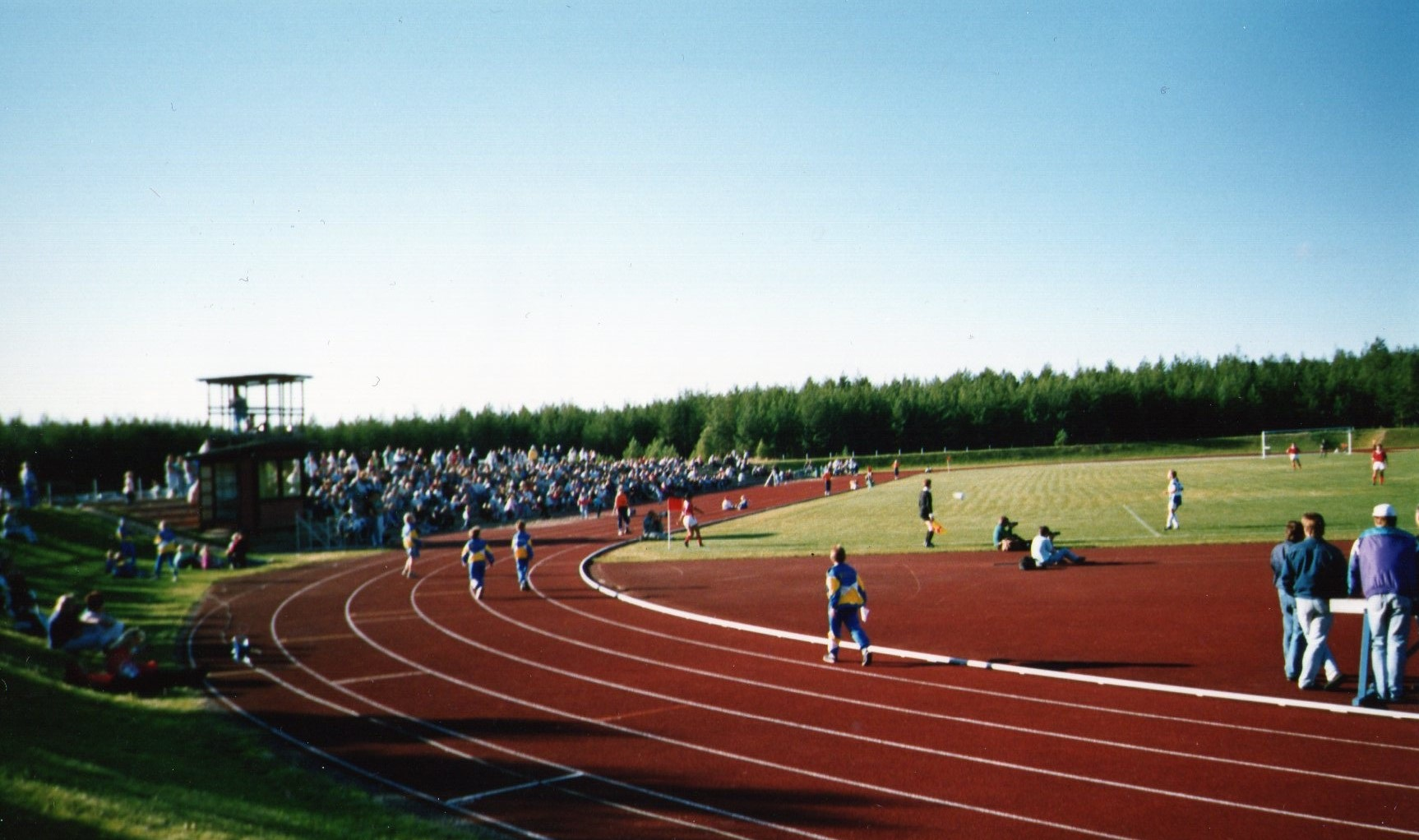 Women's international, Finland vs. China at Pitkäjärvi Stadium, Kokemäki, Finland. 23 July, 1991